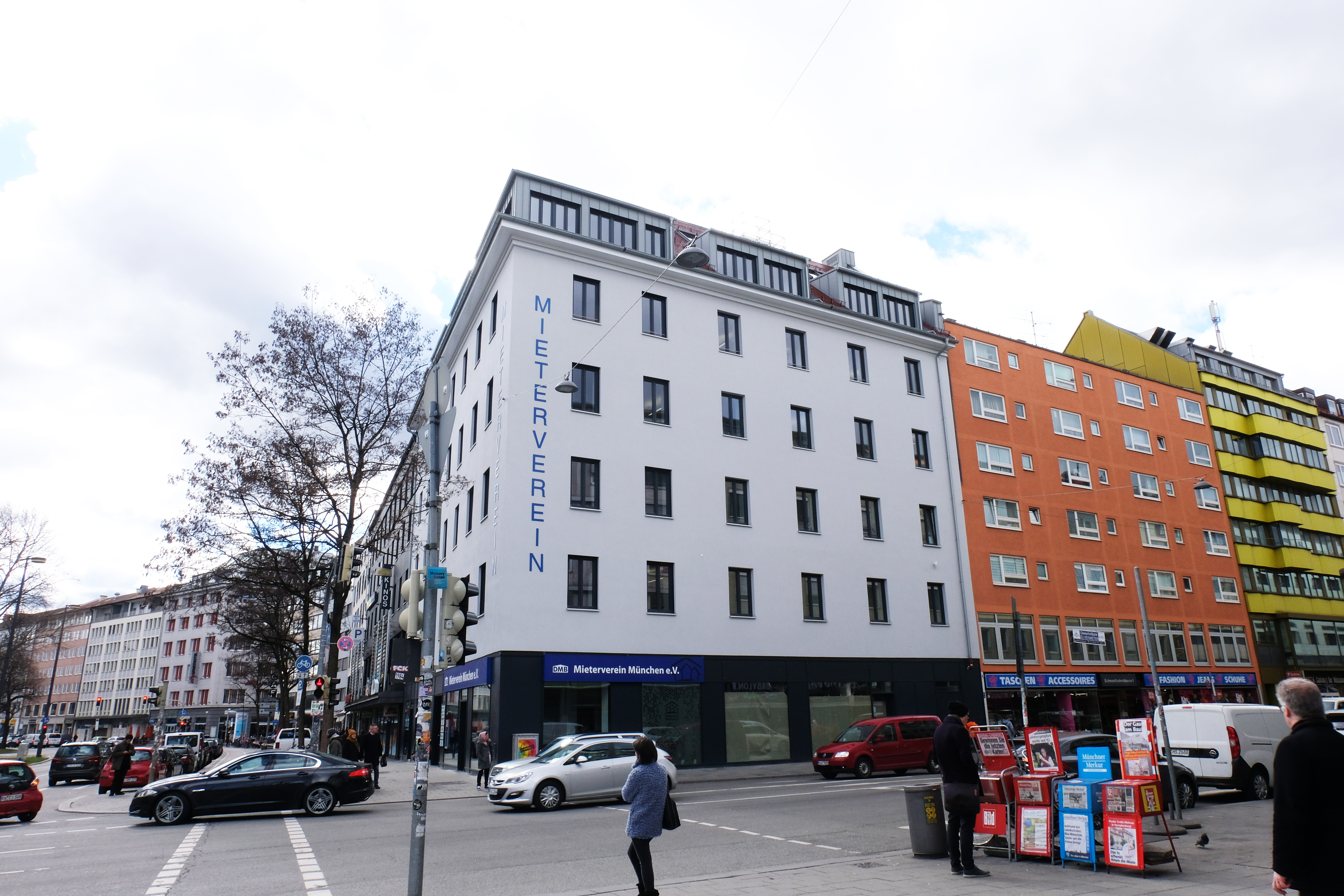 Mieterverein Münchn Sonnenstraße 10, Munich Germany